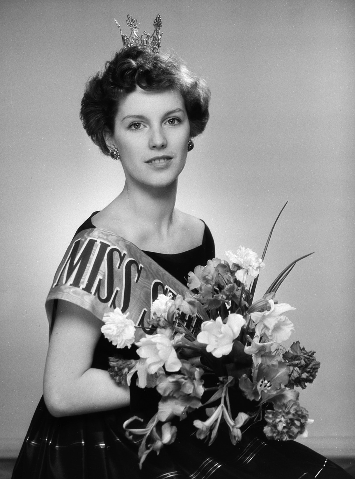 Maija-Riitta Tuomaala in 1953.